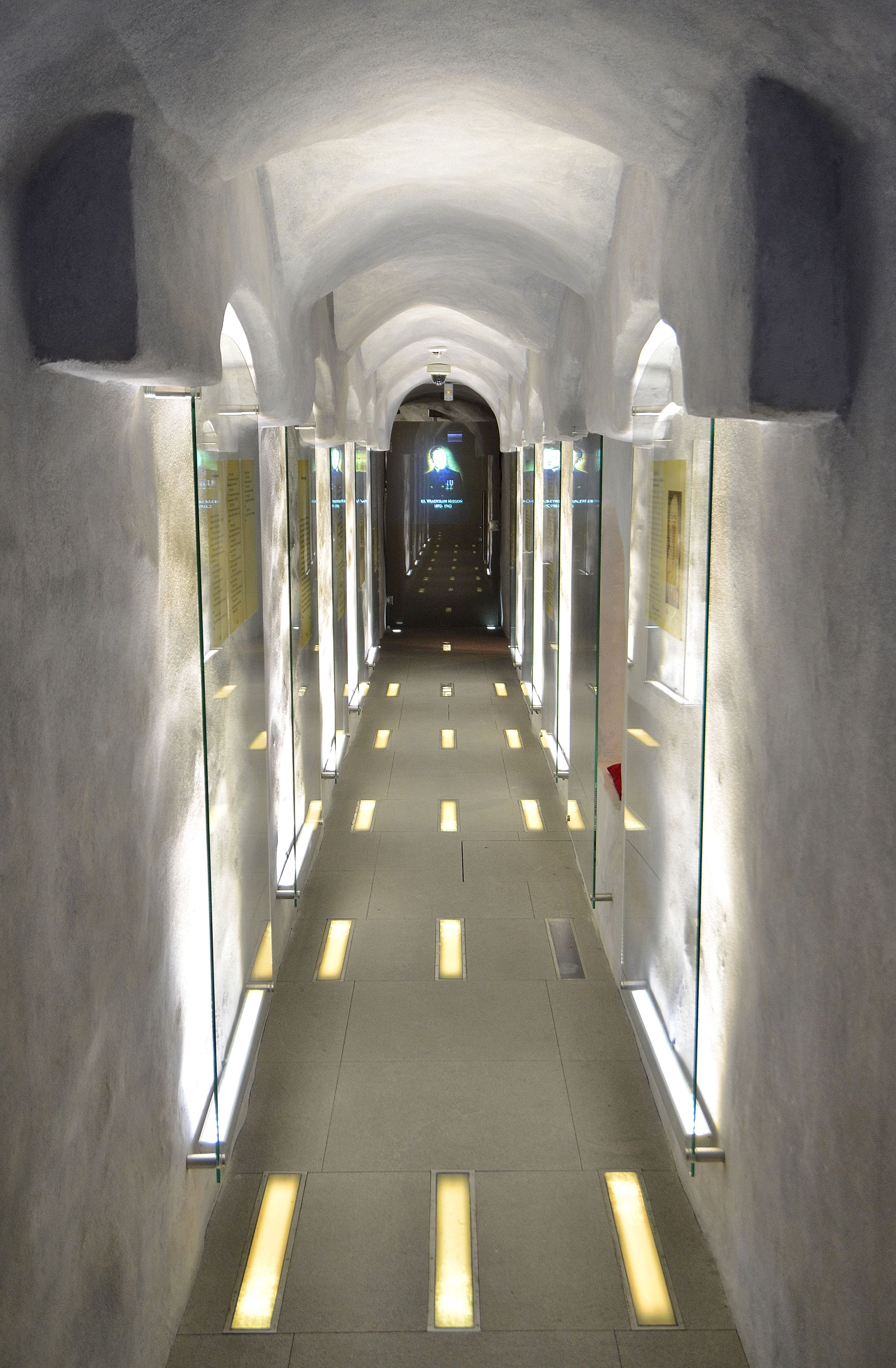 Museum of the Military Ordinariate in Warsaw